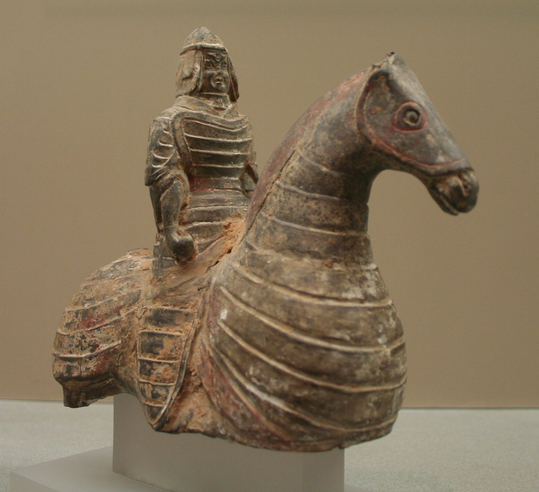 Warrior on a Caparisoned Horse (Jiaqi Juzhuang Yong). Terra Cotta. Nothern Wei Dynasty (386 – 534). Cernuschi Museum, Paris, France.